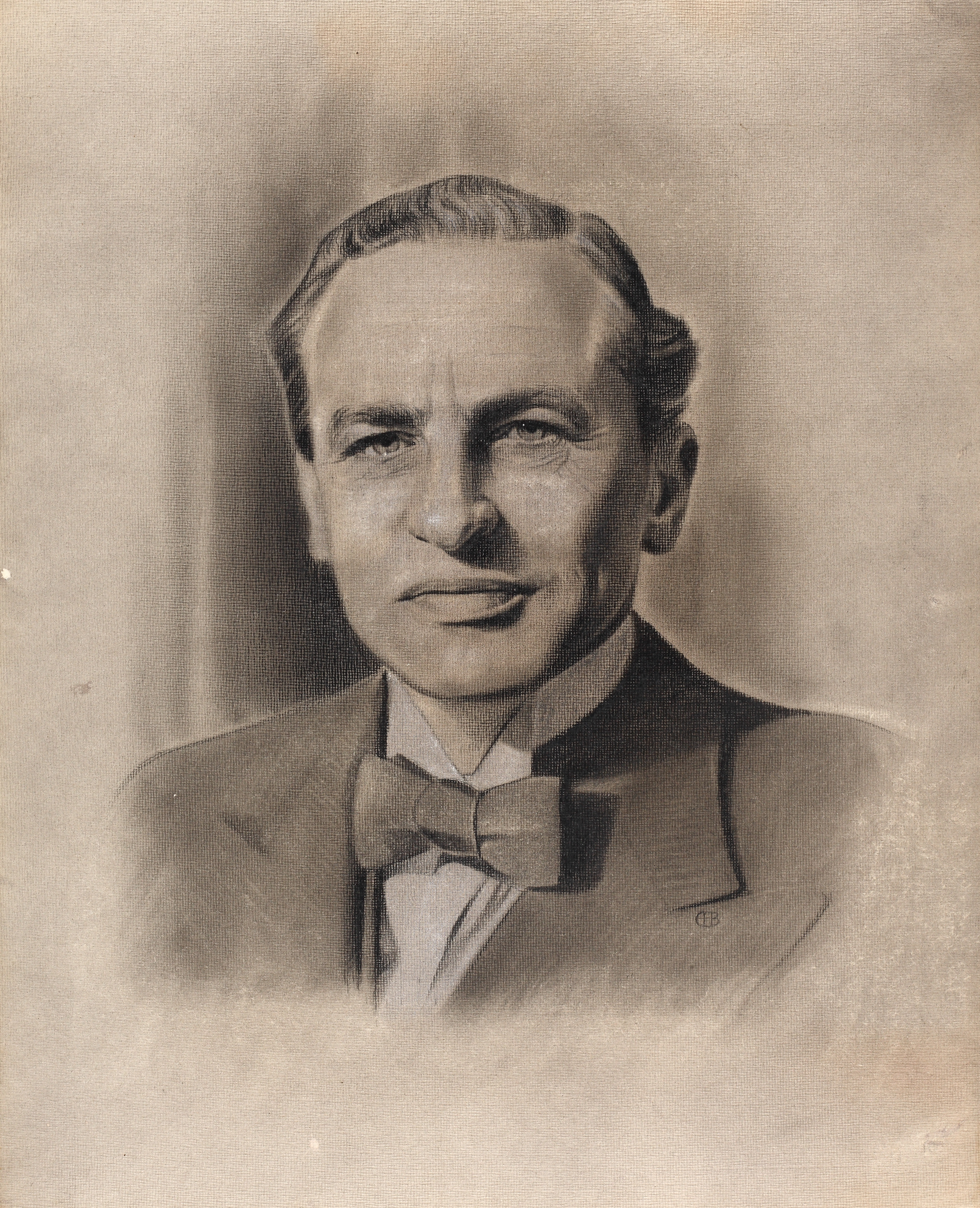 Sir Archibald Sinclair Depicted person: Archibald Sinclair, 1st Viscount Thurso